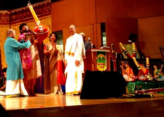 T S Nandakumar receiving cleveland Best Teacher Award